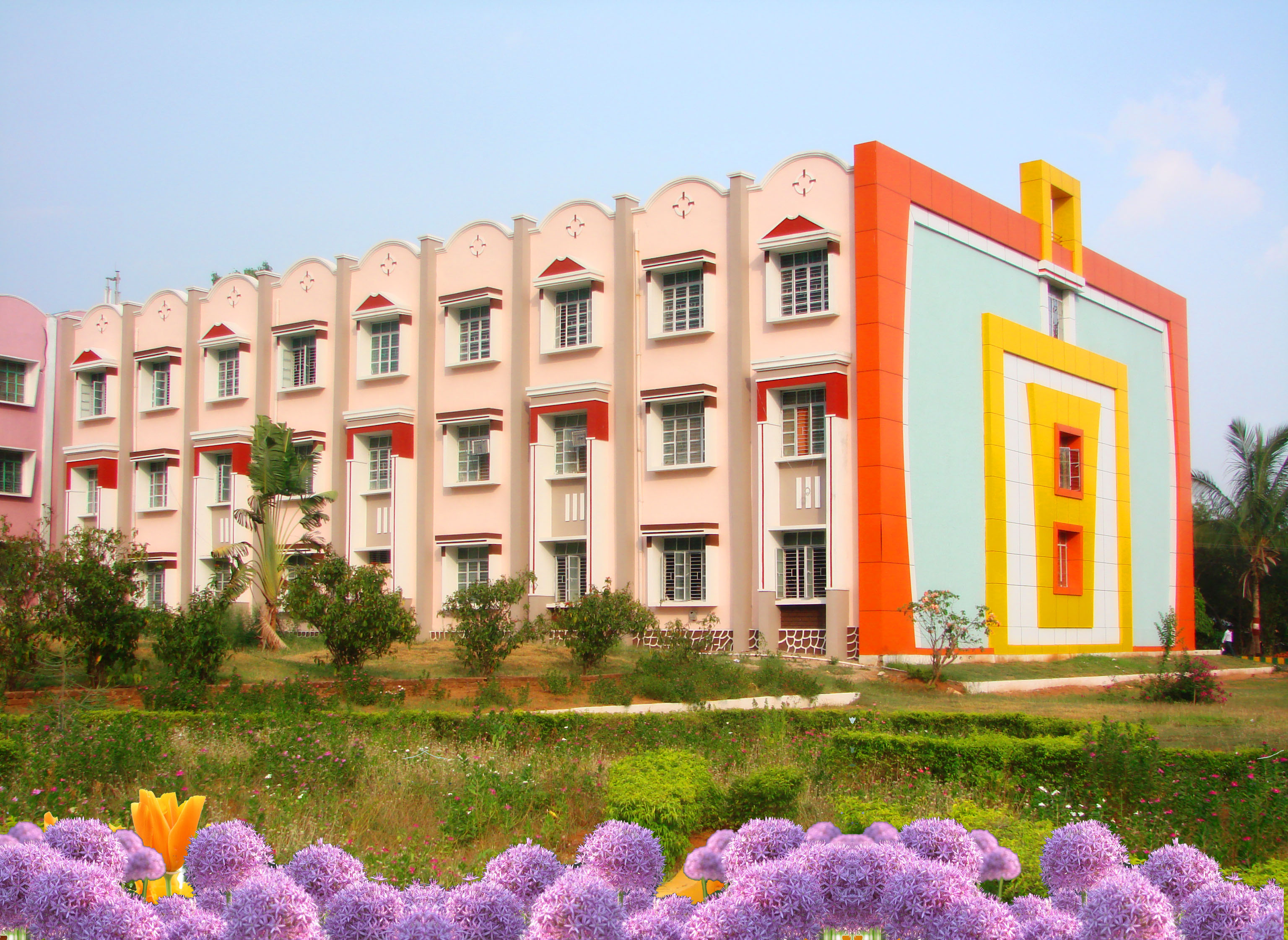 Department of Chemical Engg. GIET